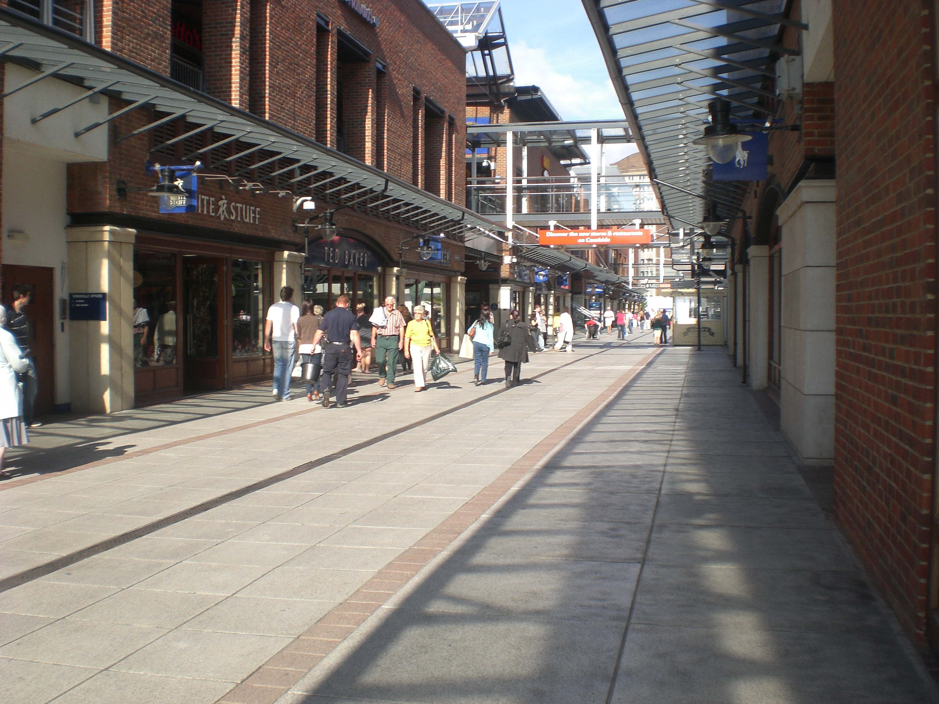 Vernon Avenue in Gunwharf Quays in Portsmouth